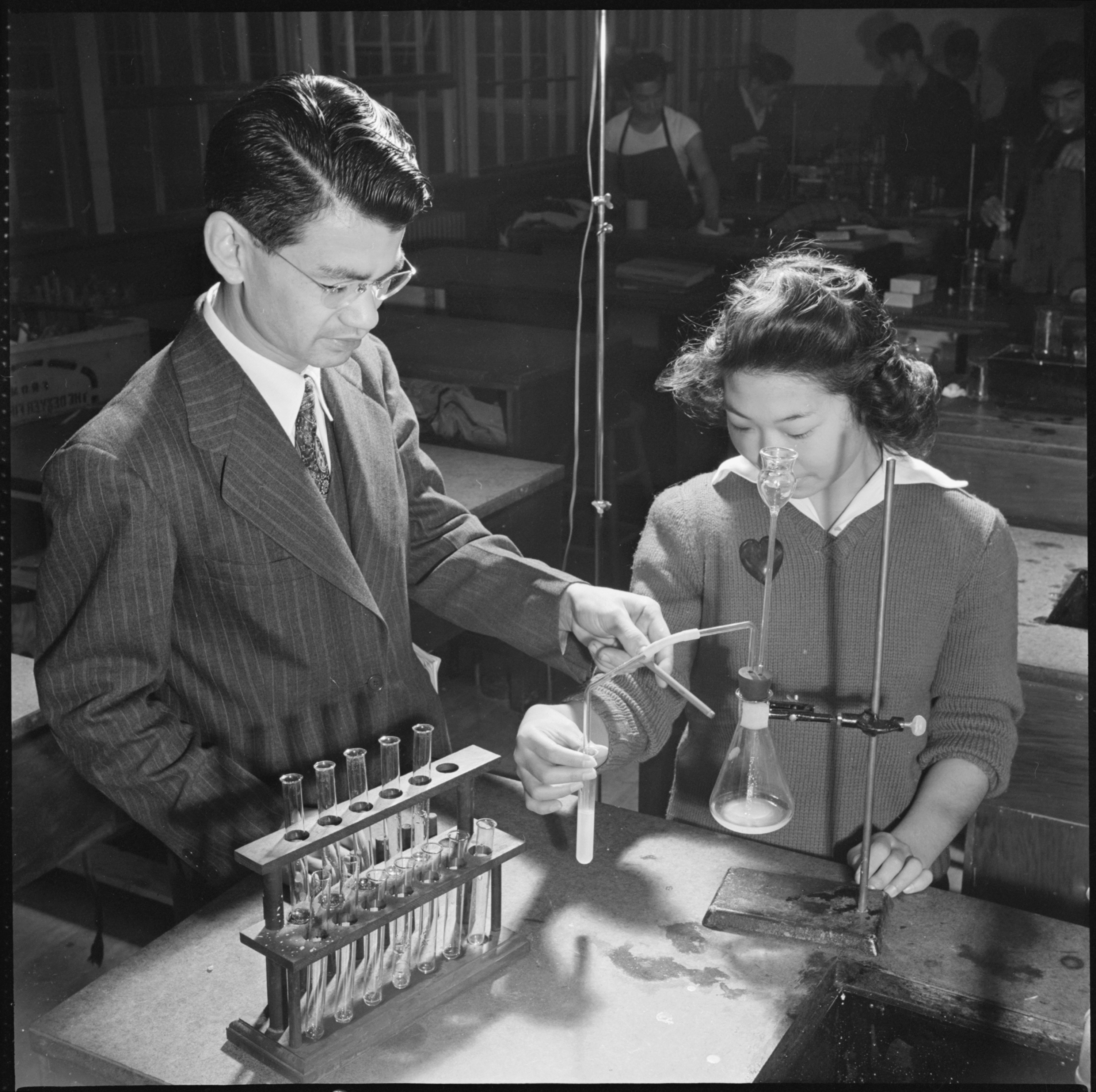 Scope and content: The full caption for this photograph reads: Heart Mountain Relocation Center, Heart Mountain, Wyoming. Scene in the Chemistry class at the Heart Mountain High School, as Kaoru Inouye, instructor, is showing student, Sumi Tamura a step in one of the Chemistry experiments.